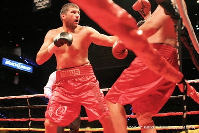 Photographer Patrick Fulcher photographs Timur Ibragimov boxing against Gurcharan Singh.